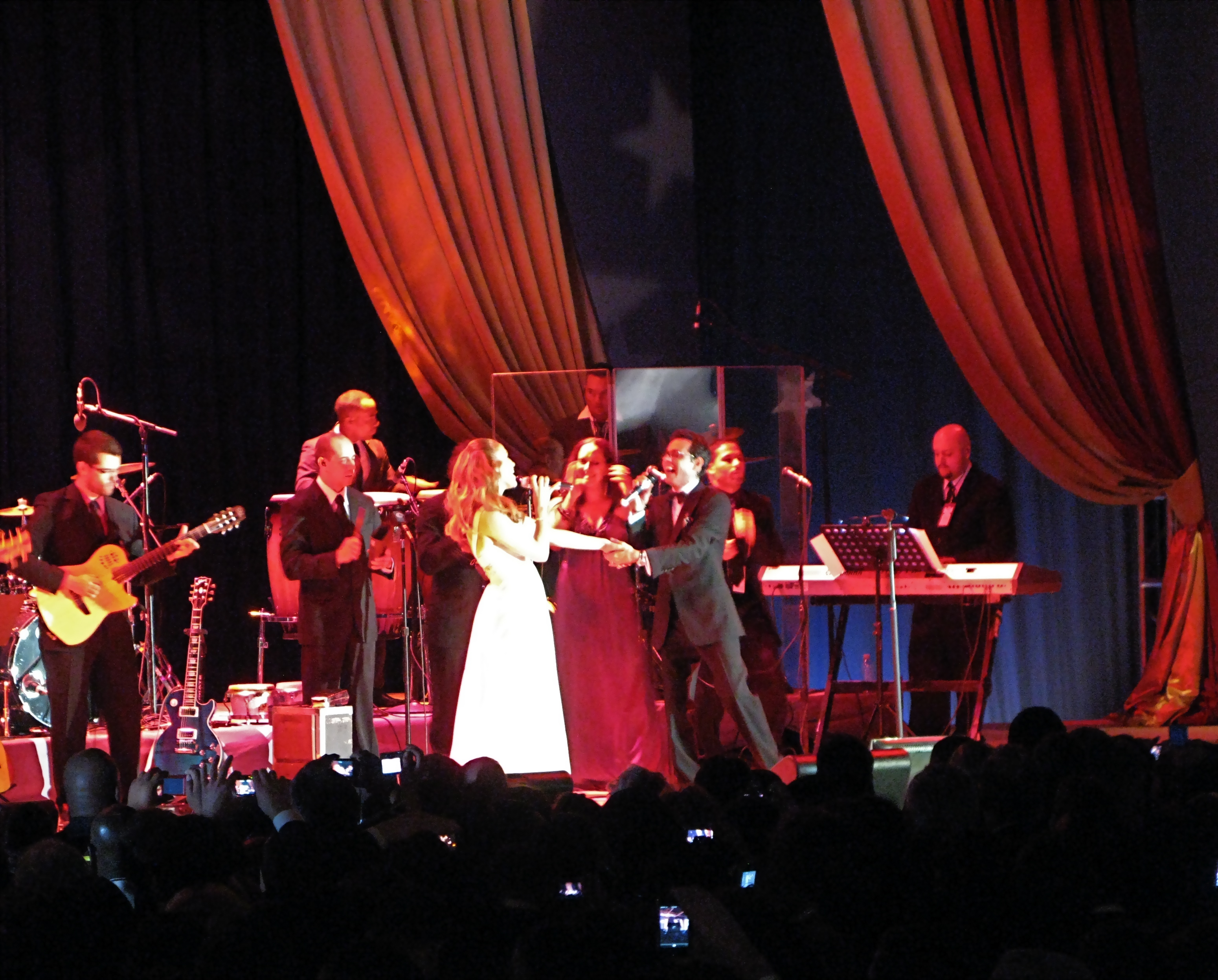 Jennifer Lopez and Marc Anthony in a concert